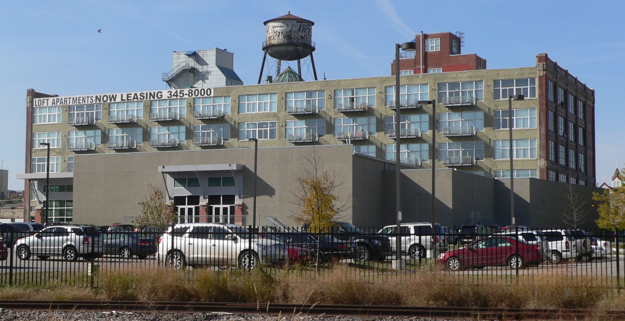 Omaha Ford Assembly Plant, now the TipTop Apartments, located at 1514-1524 Cunningham in Omaha, Nebraska; seen from the northeast.